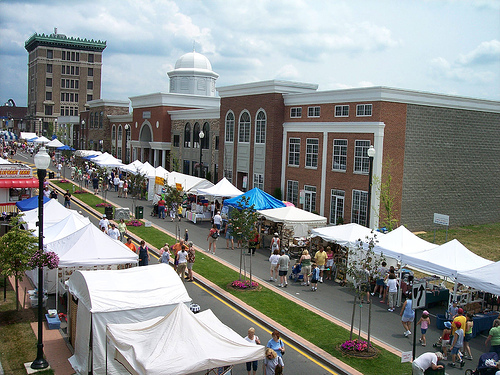 31st Annual Lockport Outdoor Arts and Craft Festival. Ulrich City Center Main St. facade in Background.